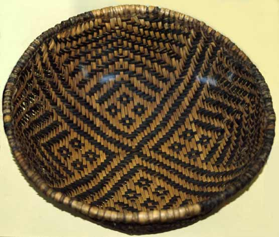 There is a whole group of Ancestral Pueblo people called the Basketmakers because of their superior basket making skills. The basket pictured, most likely dating from A.D. 450-750, shows the intricacy of woven patterns created by people in the Mesa Verde region as they began to transition from a hunter-gatherer to an agricultural lifestyle. Not only were baskets used for collecting seeds, nuts, fruits, and berries, but they were sometimes coated with pitch on the inside, which allowed them to hold water and tolerate heat. Baskets were also used for cooking, as an alternative to roasting food over hot coals. People could heat stones in the fire and then drop them into the baskets. Seeds were parched or roasted by placing warm stones in with the seeds and then shaking them together.